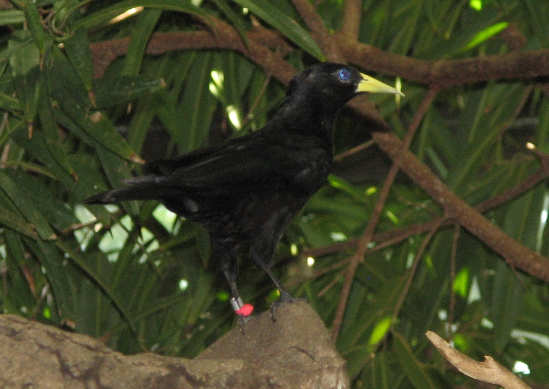 Red-rumped Cacique